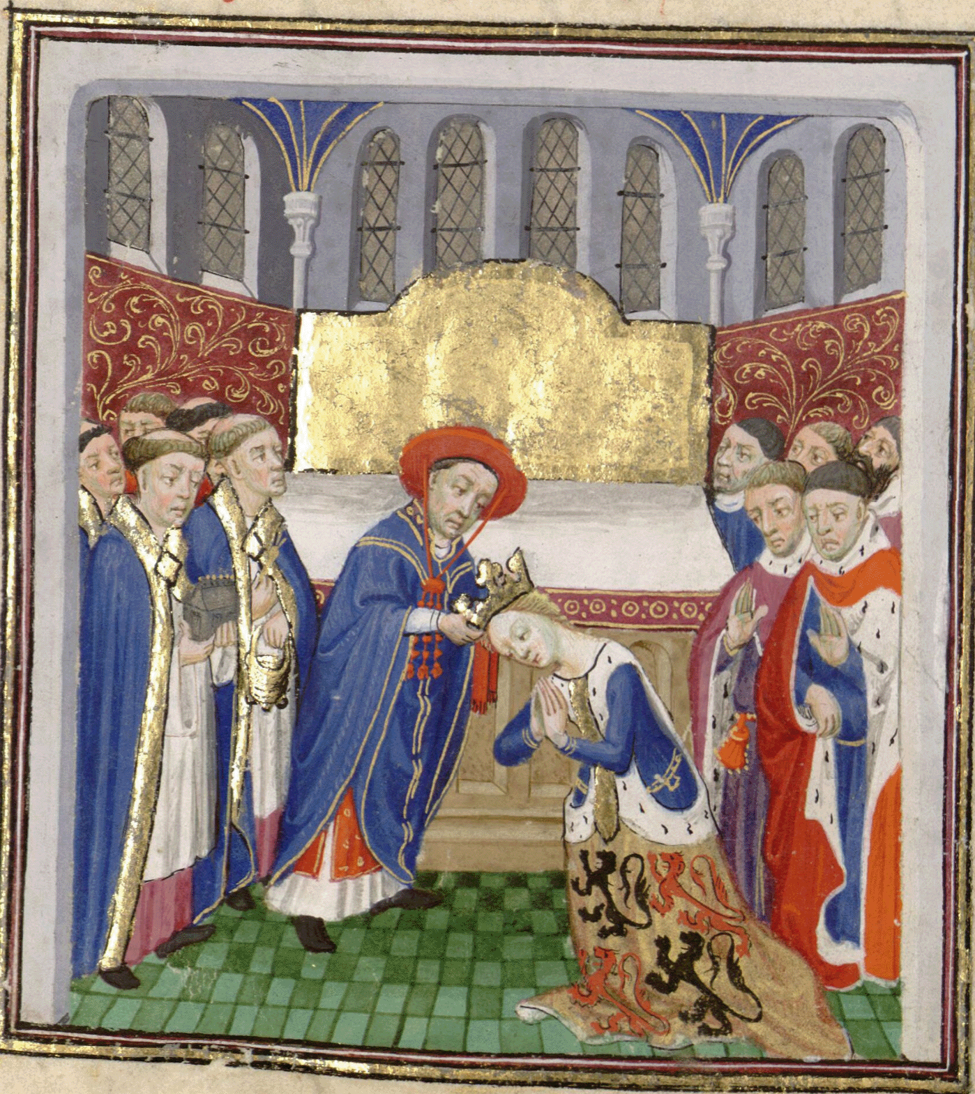 Philippa of Hainault